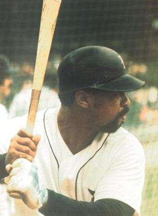 Professional baseball player Willie Horton